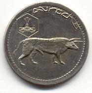 Coin with bull and VVA logo.